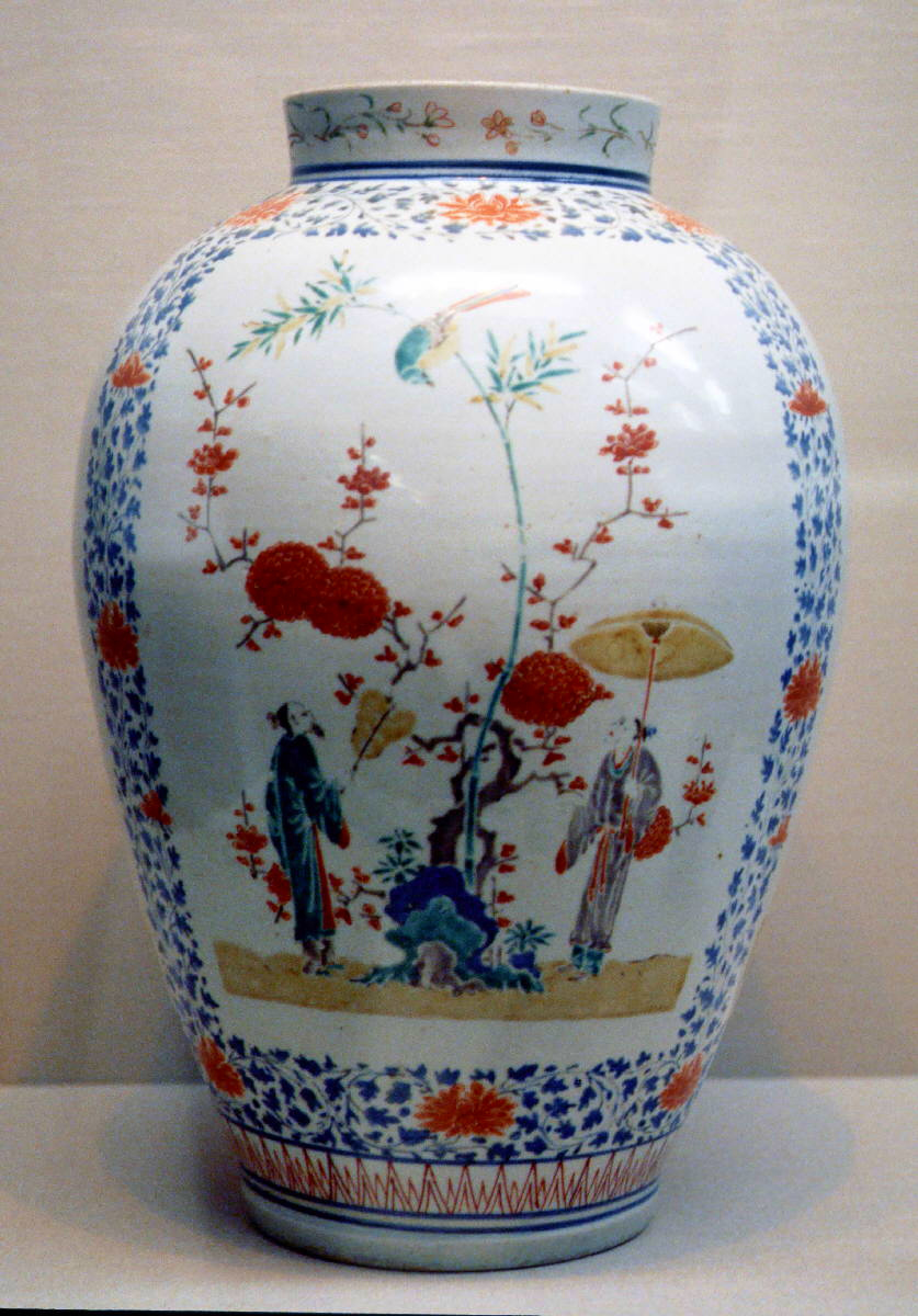 Kakiemon style ware, enamel porcelain , about 10 inches, Tokyo National Museum, Tokyo, Japan